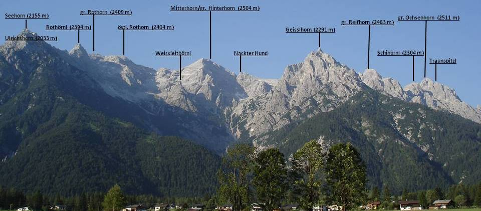 Loferer Steinberge view from south-west with annotated Peaks